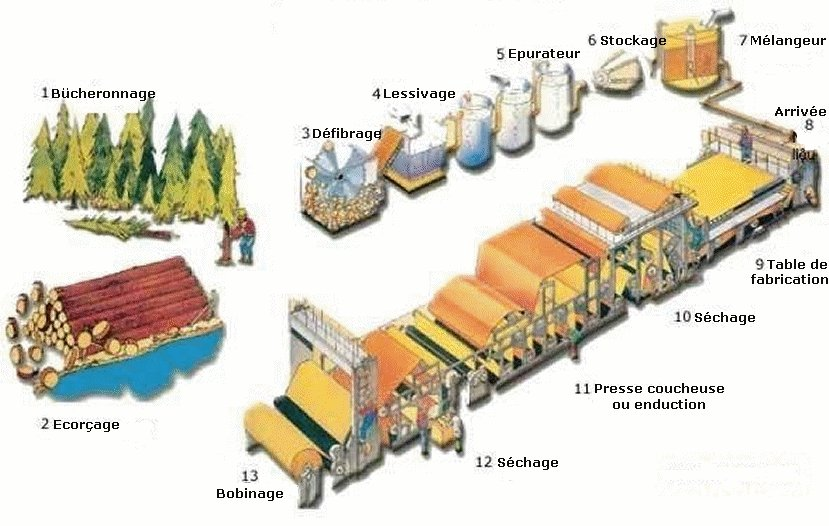 Production line of paper (in French)